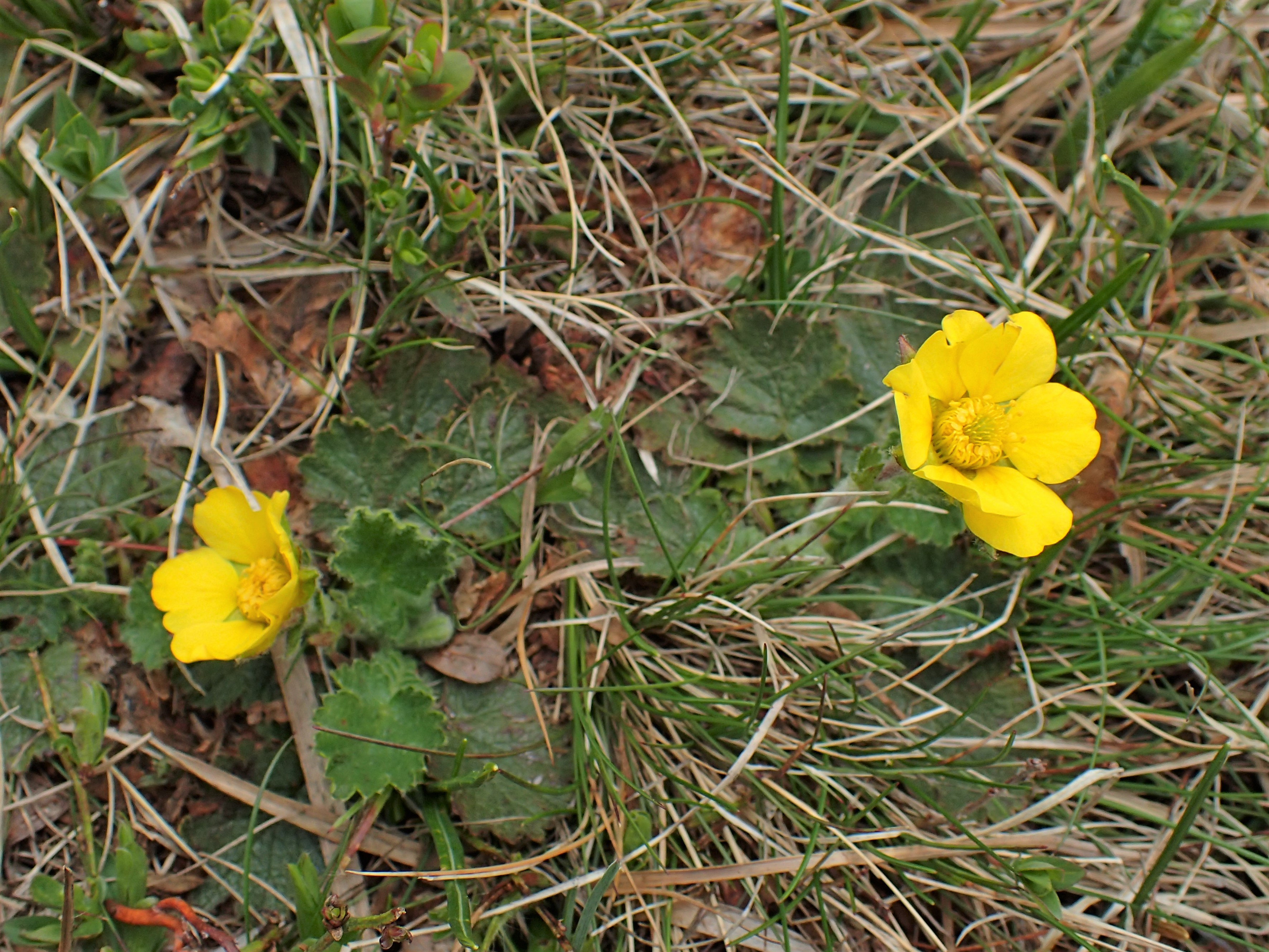 Geum montanum on Vitosha Mt., W Bulgaria